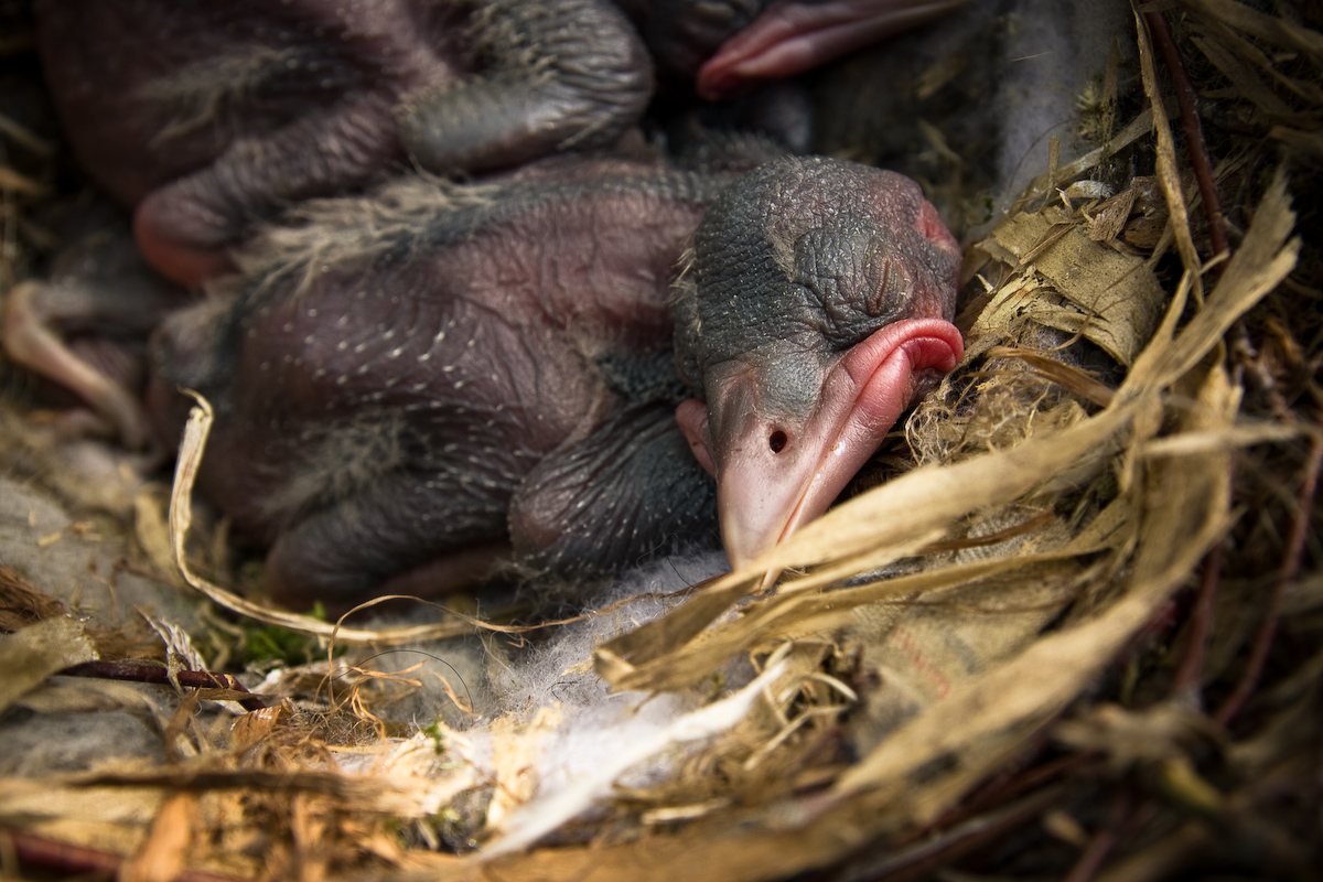 Crow babies 10 days after birth ( Moscow, Russia, May 2010)